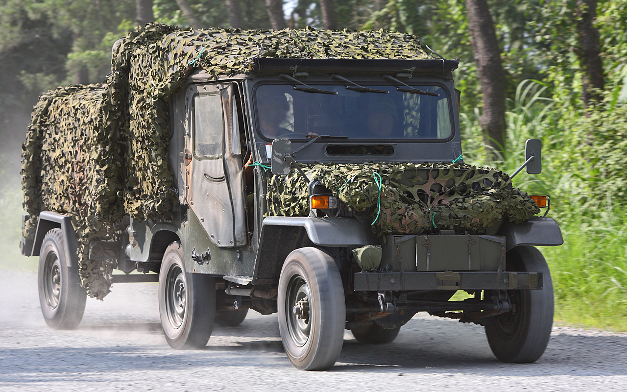 JGSDF Light Truck Type 73 ( 1/2 ton truck, Old look )